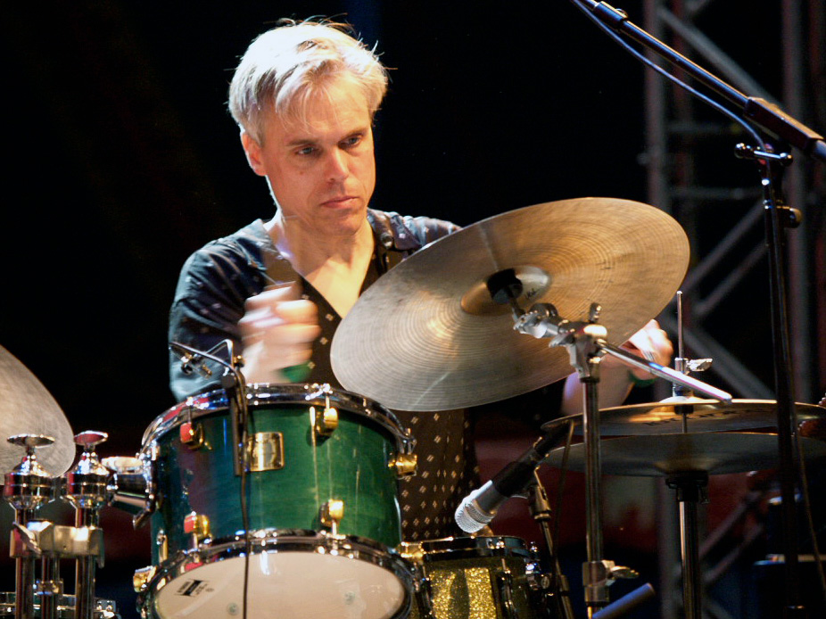 Gerry Hemingway at moers festival 2007 self made/own work, may 25, 2007 photo: nomo/michael hoefner